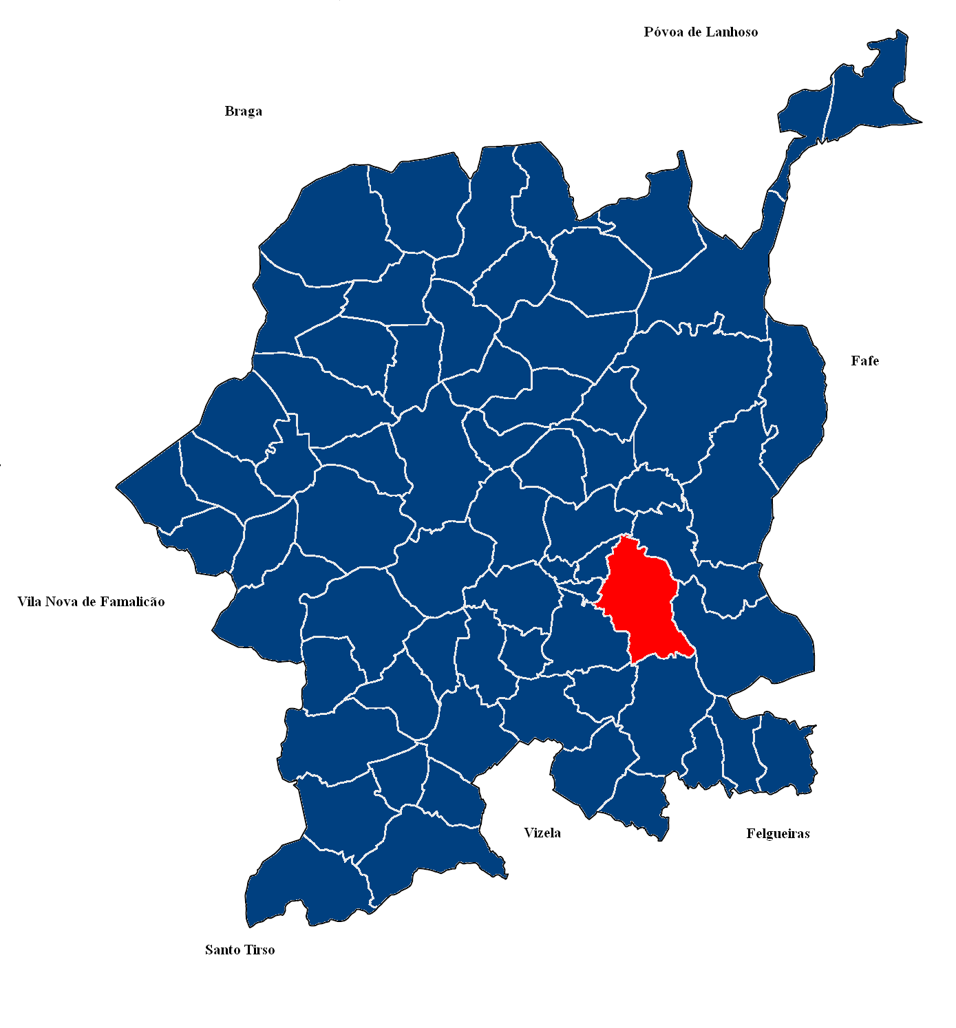 Map of Costa parish, Guimarães Municipality, Portugal